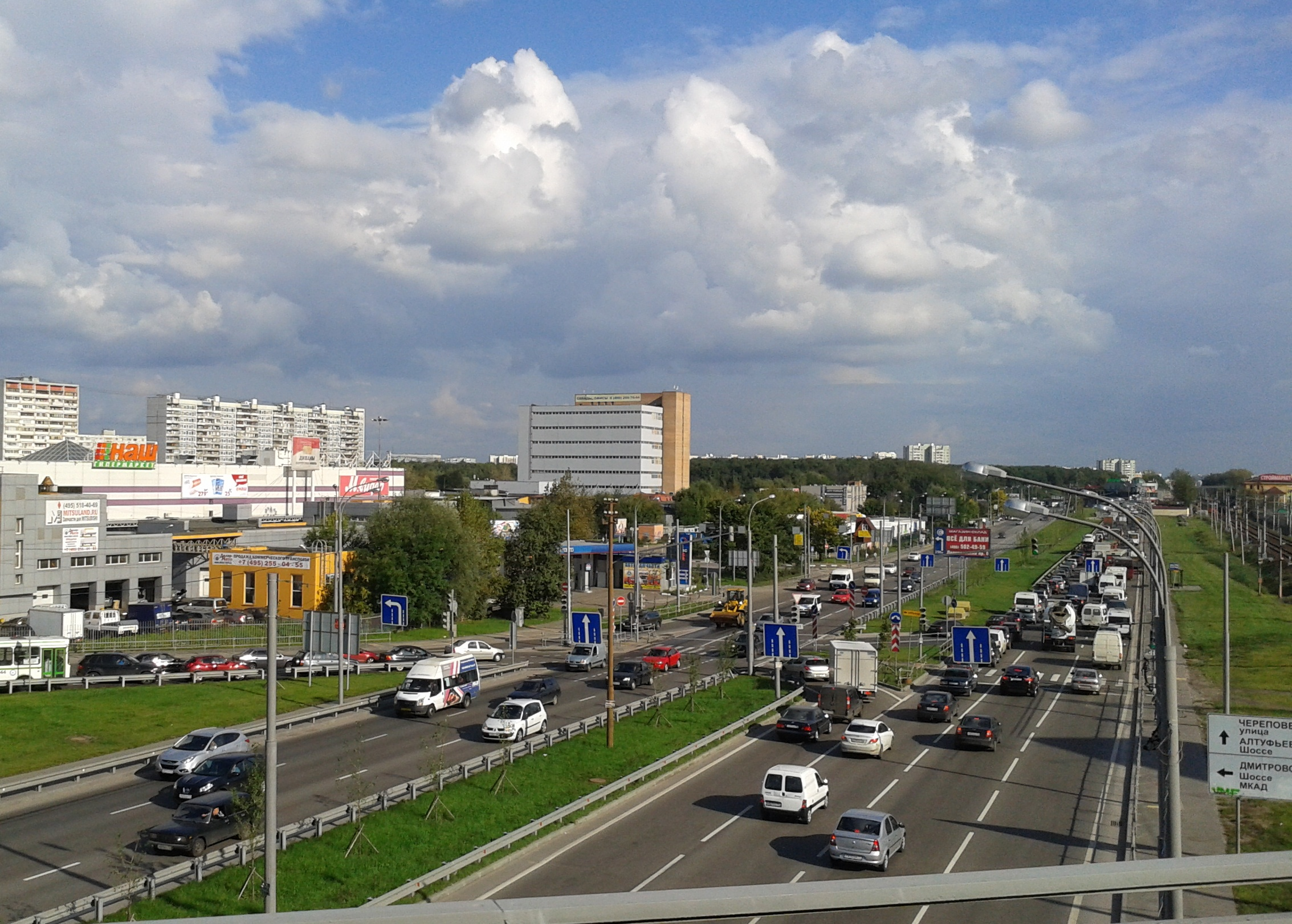 Lianozovski passage, Moscow, Russia